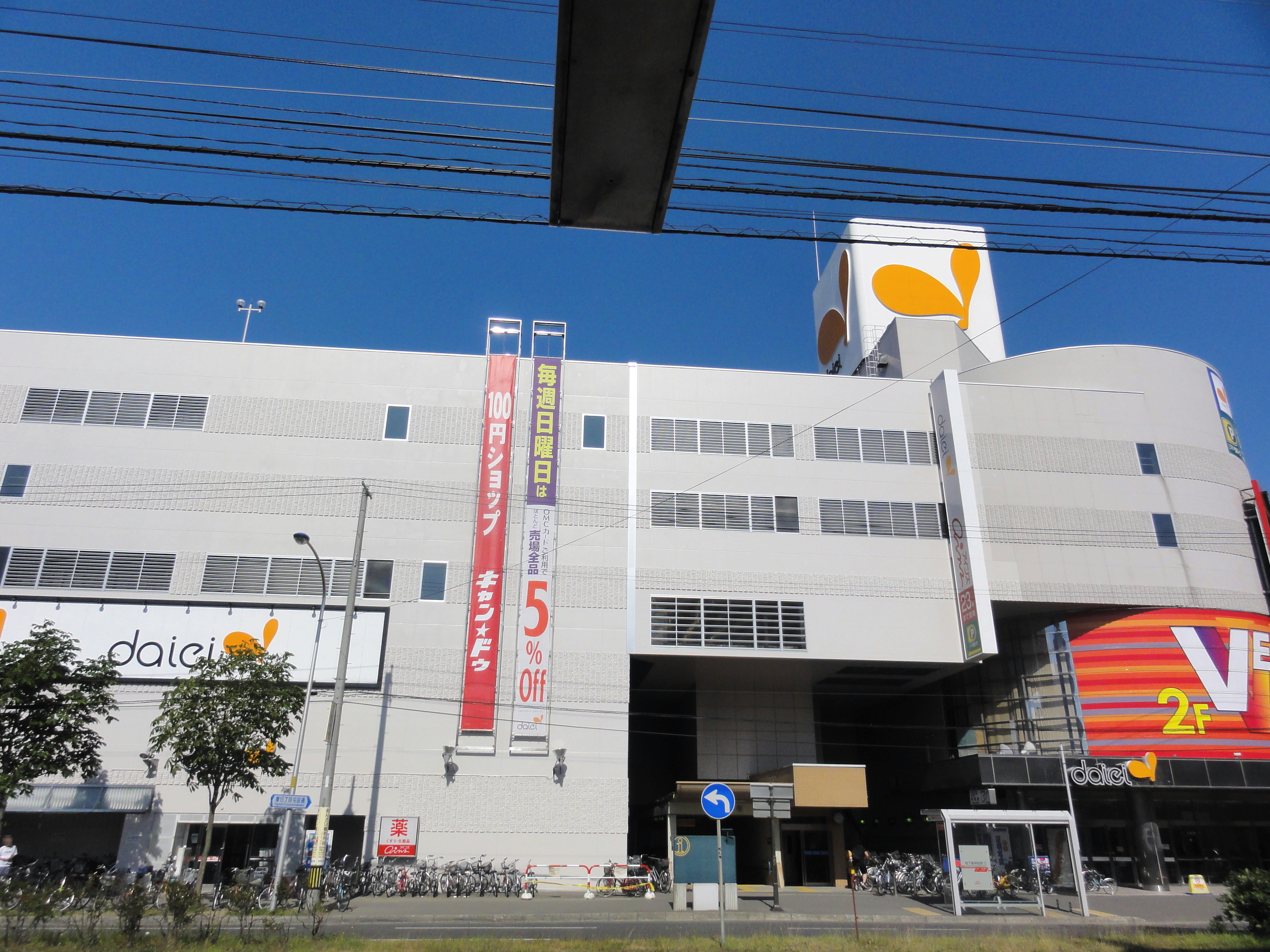 Daiei Sakemachi-Ten (Higashi-ku, Sapporo, Hokkaido)